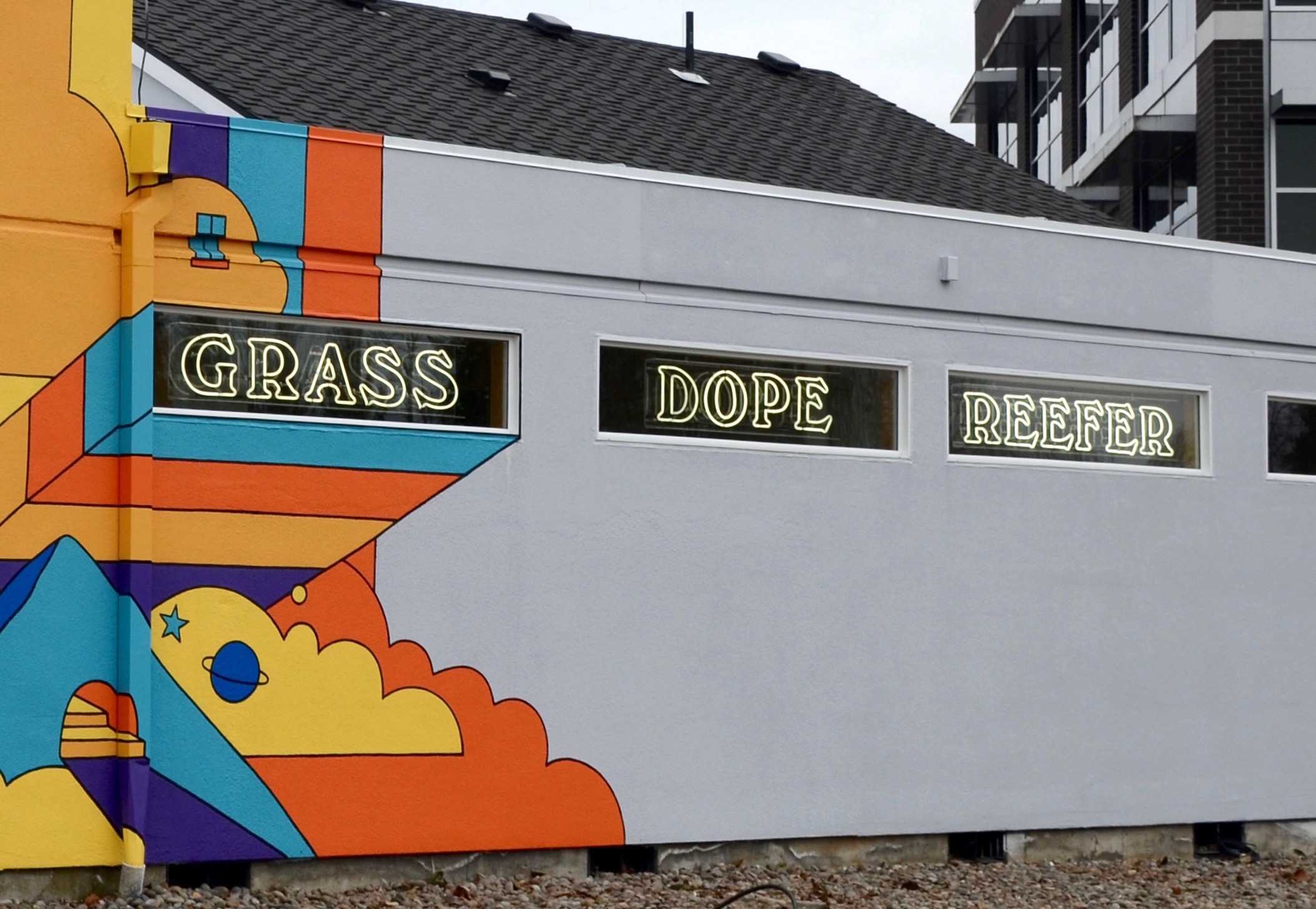 Neon signs for marijuana slang in the windows of a new shop in Cedar Hills, Oregon (in the Portland metropolitan area) selling marijuana for recreational use. The store (named Electric Lettuce) opened about five days after the photo was taken.